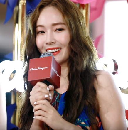 181102 Jessica Jung at Salvatore Ferragamo Event in Hong Kong